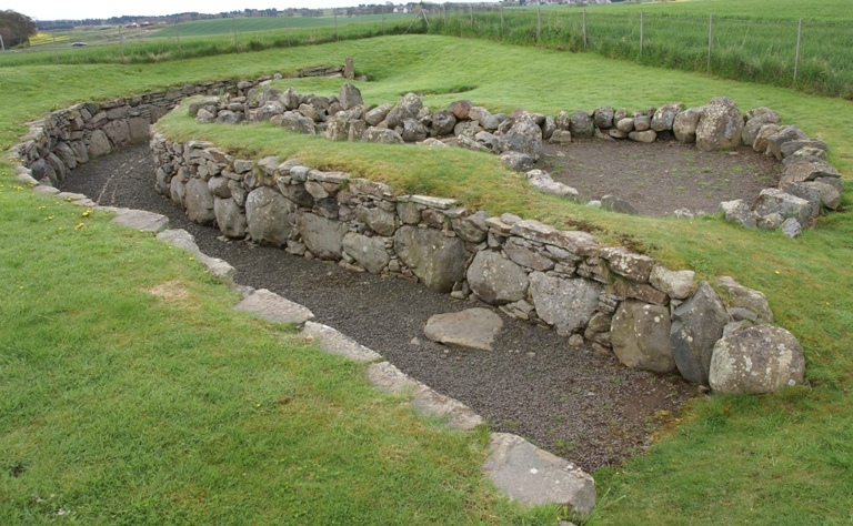 Ardestie Earth House, Angus, Scotland